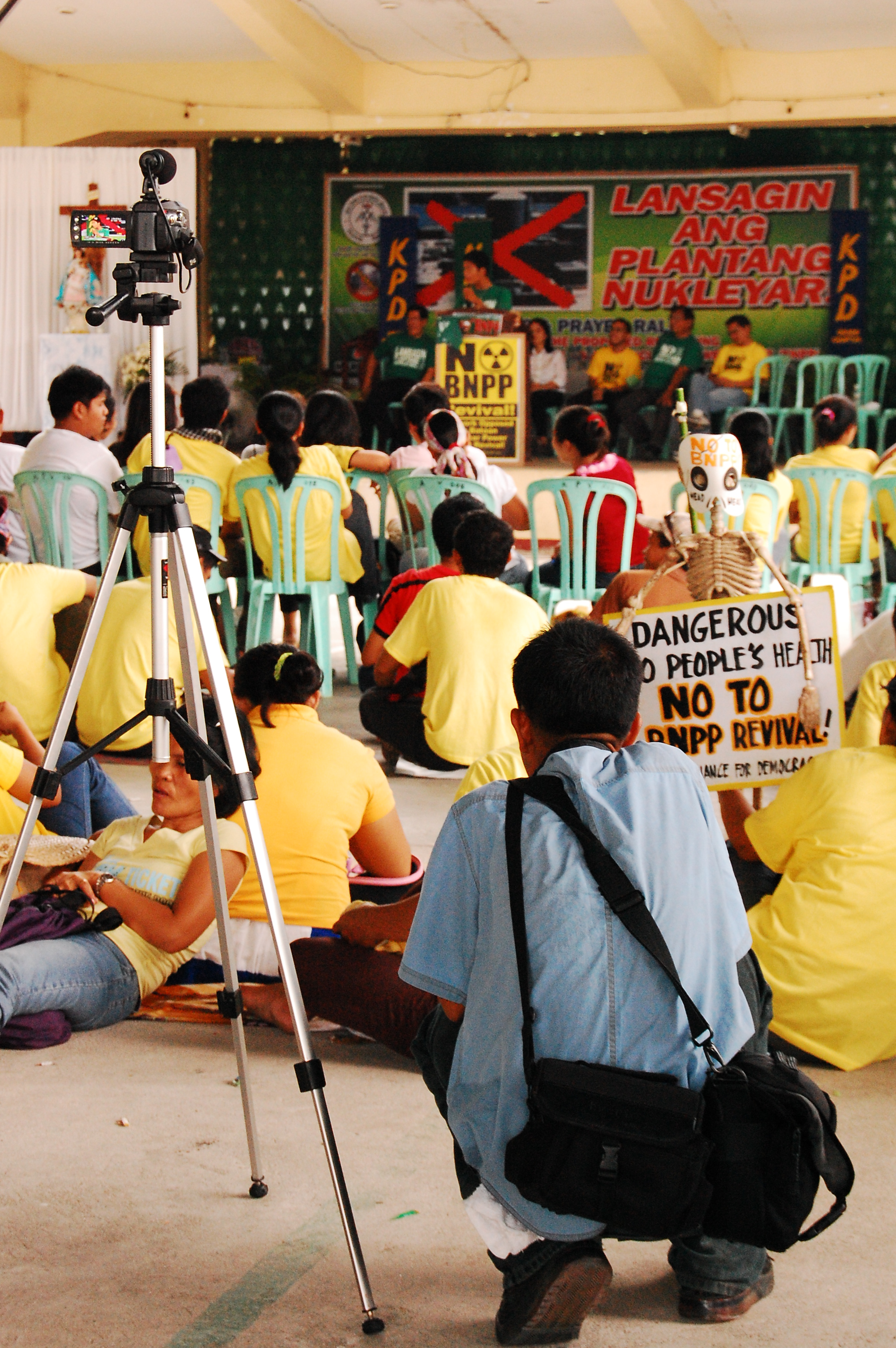 A speaker discusses the cons of the Bataan Nuclear Power Plant revival while being recorded on video. Amongst him are also against the plant's reopening. A skeleton toy can be seen in the photo, hinting terror and deadly danger. This was taken in a basketball court around Morong Parish Church Compound where a Catholic mass had been held hours before.